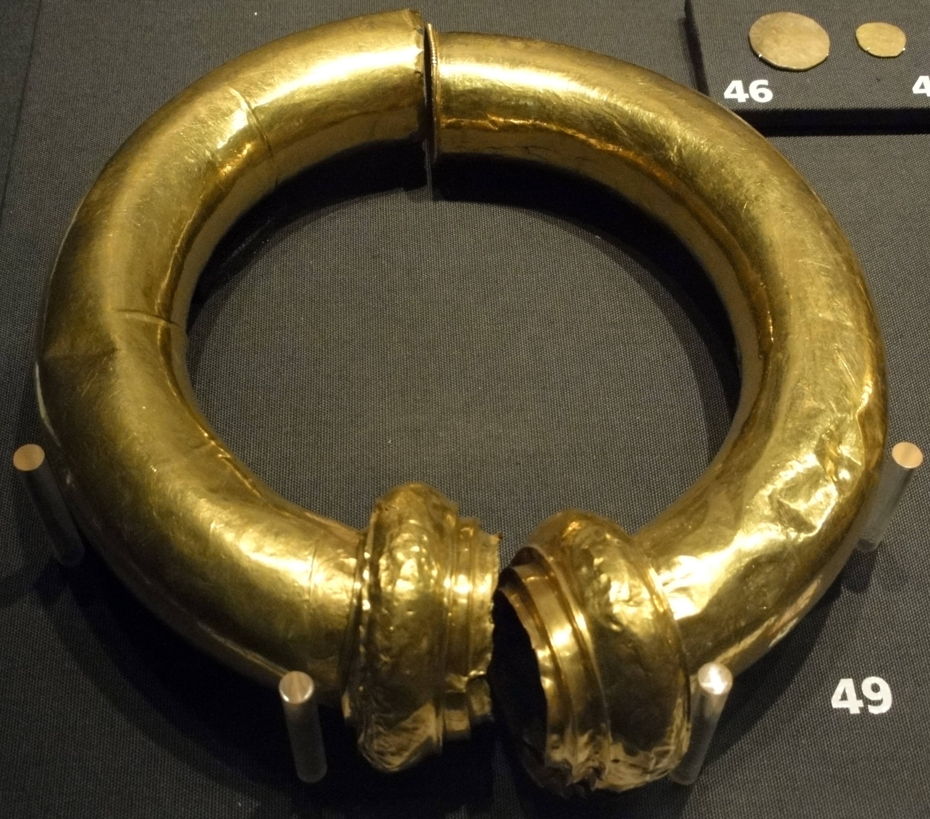 Torc from the Snettisham Hoard, c.70 BC.